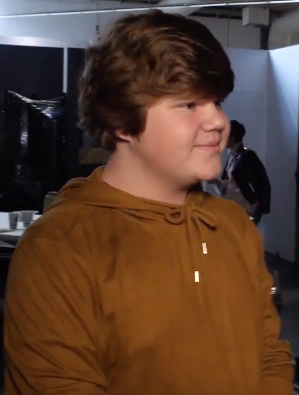 Jeremy Ray Taylor at Comic-Con Germany 2019